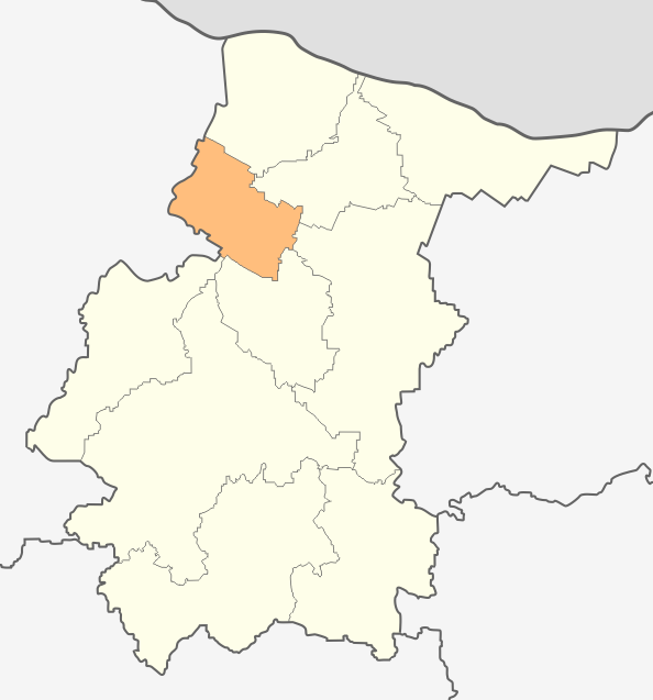 Map of Hayredin municipality, Vratsa Province